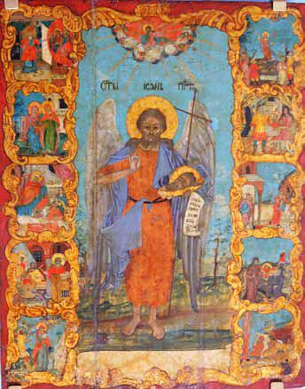 Saint John the Baptist Icon from Bigor Monastery by Nedelko from Rosoki